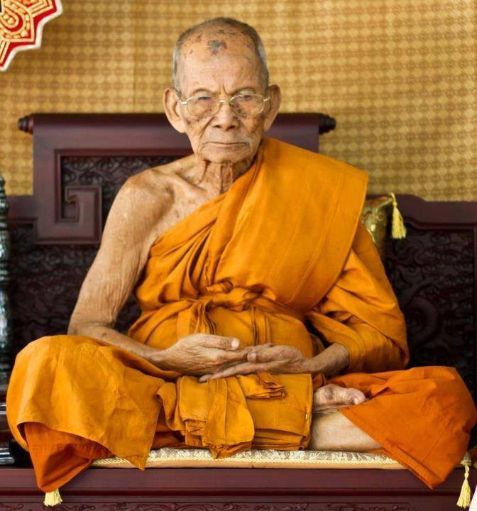 Thai monk